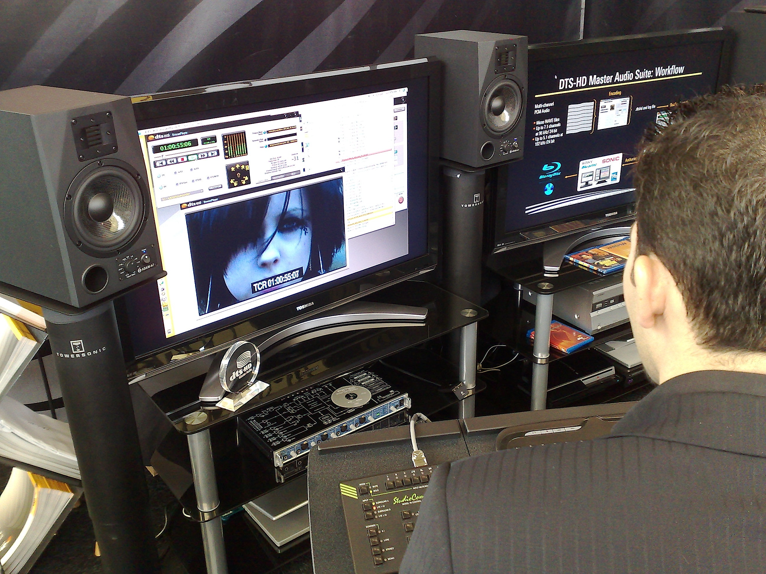 DTS surround mastering for Blueray and all